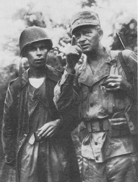 Brig. Gen. Jens A. Doe and his aide, 1st Lt. Rob D. Trimble, of the 41st Infantry Division, during the landing at Arare